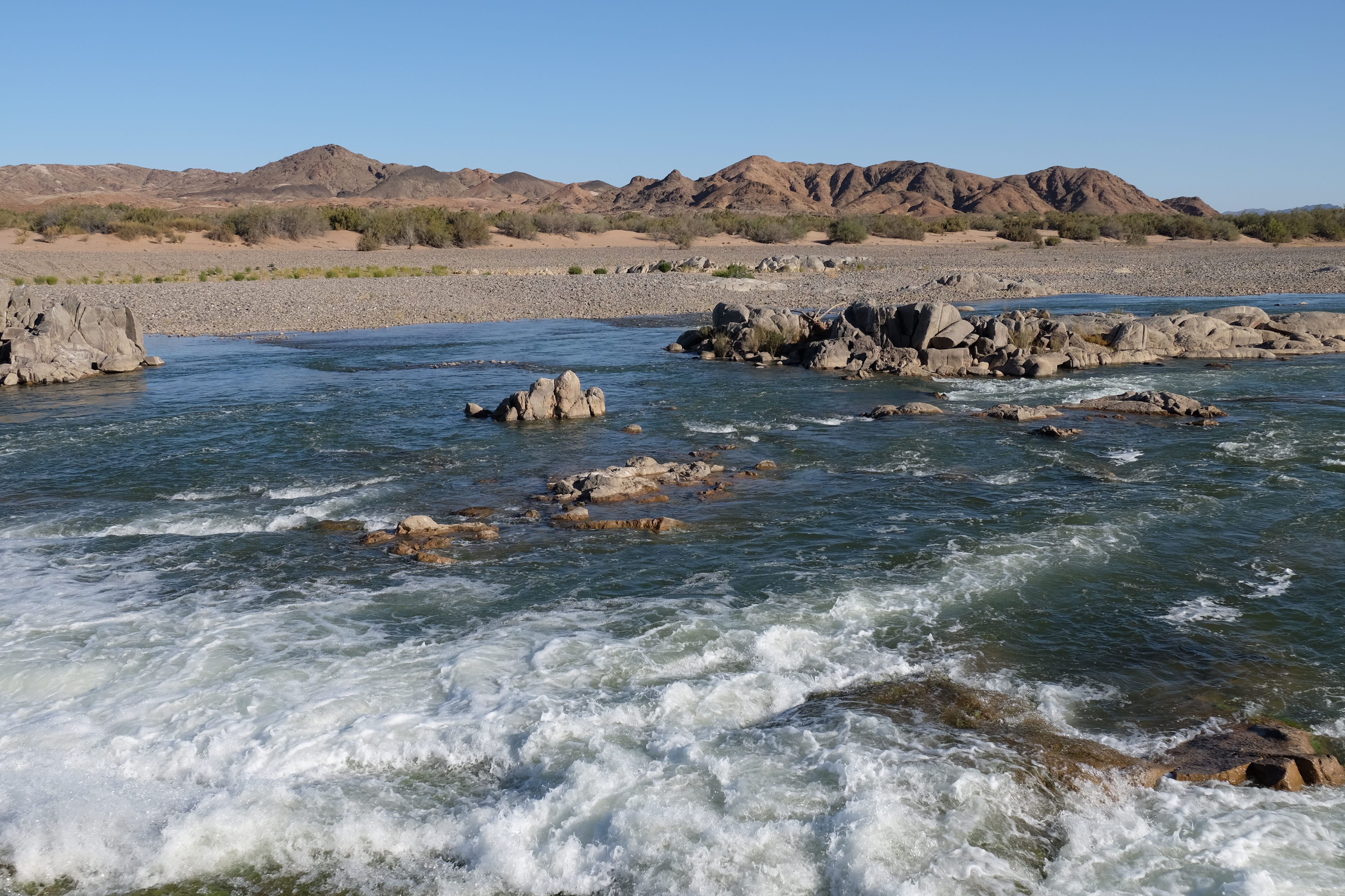 Orange River near Rosh Pinah (Picture from October 2016)